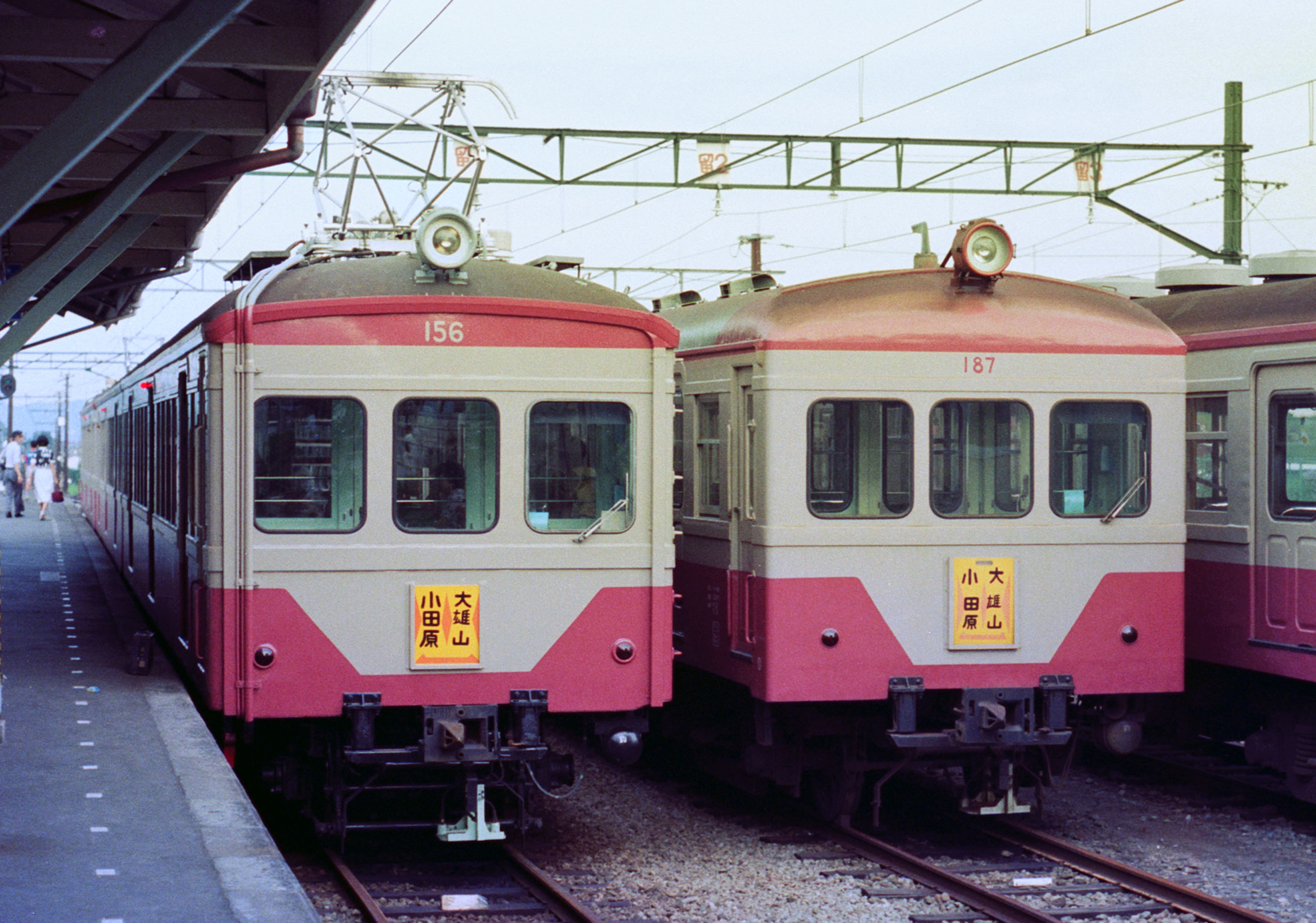 IZUHAKONE Railway's KuHa187 and MoHa156 EMU at Daiyuzan station.